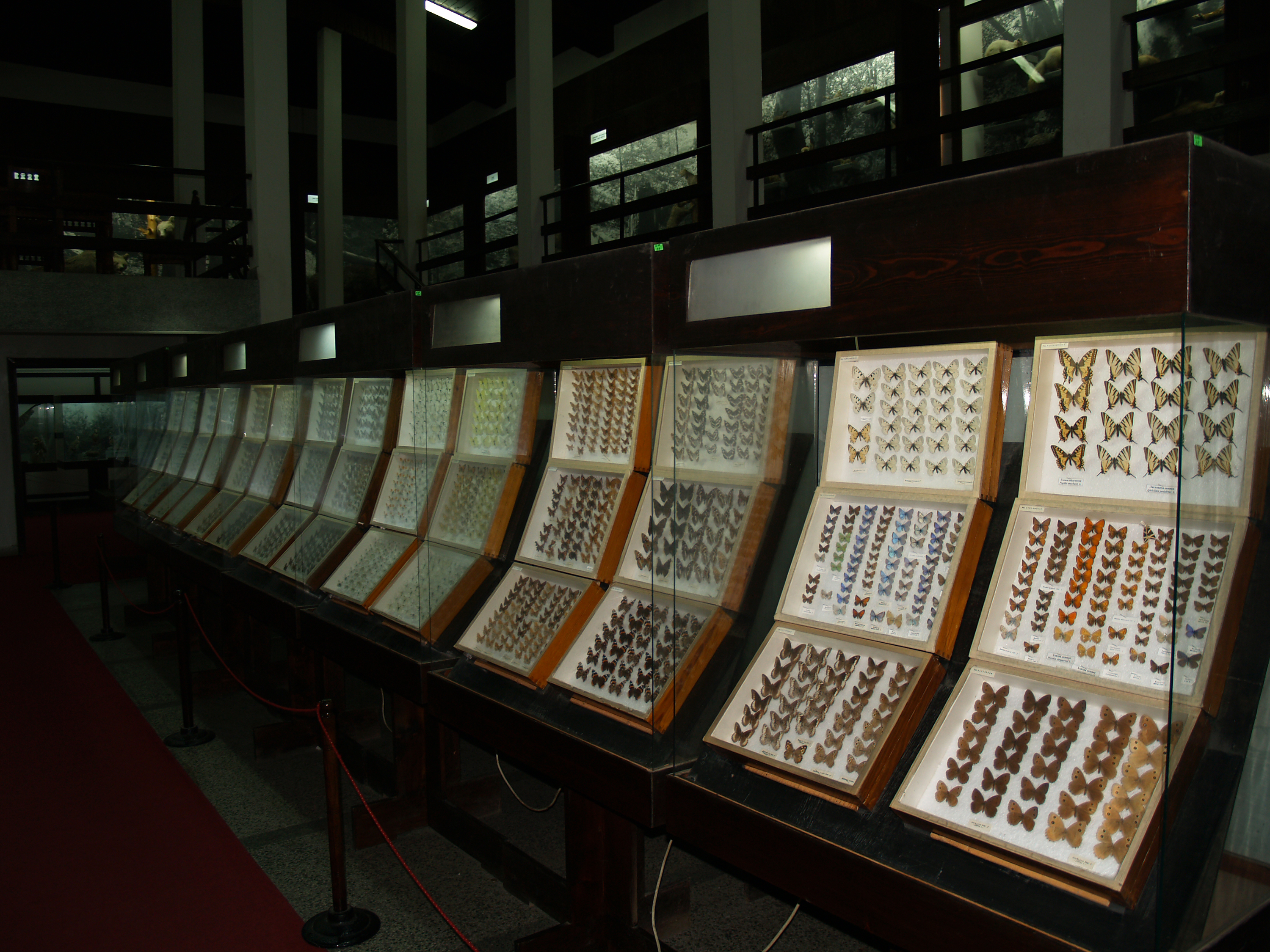 Butterfly collection, Natural Sciences Museum in Cherni Osam, Bulgaria